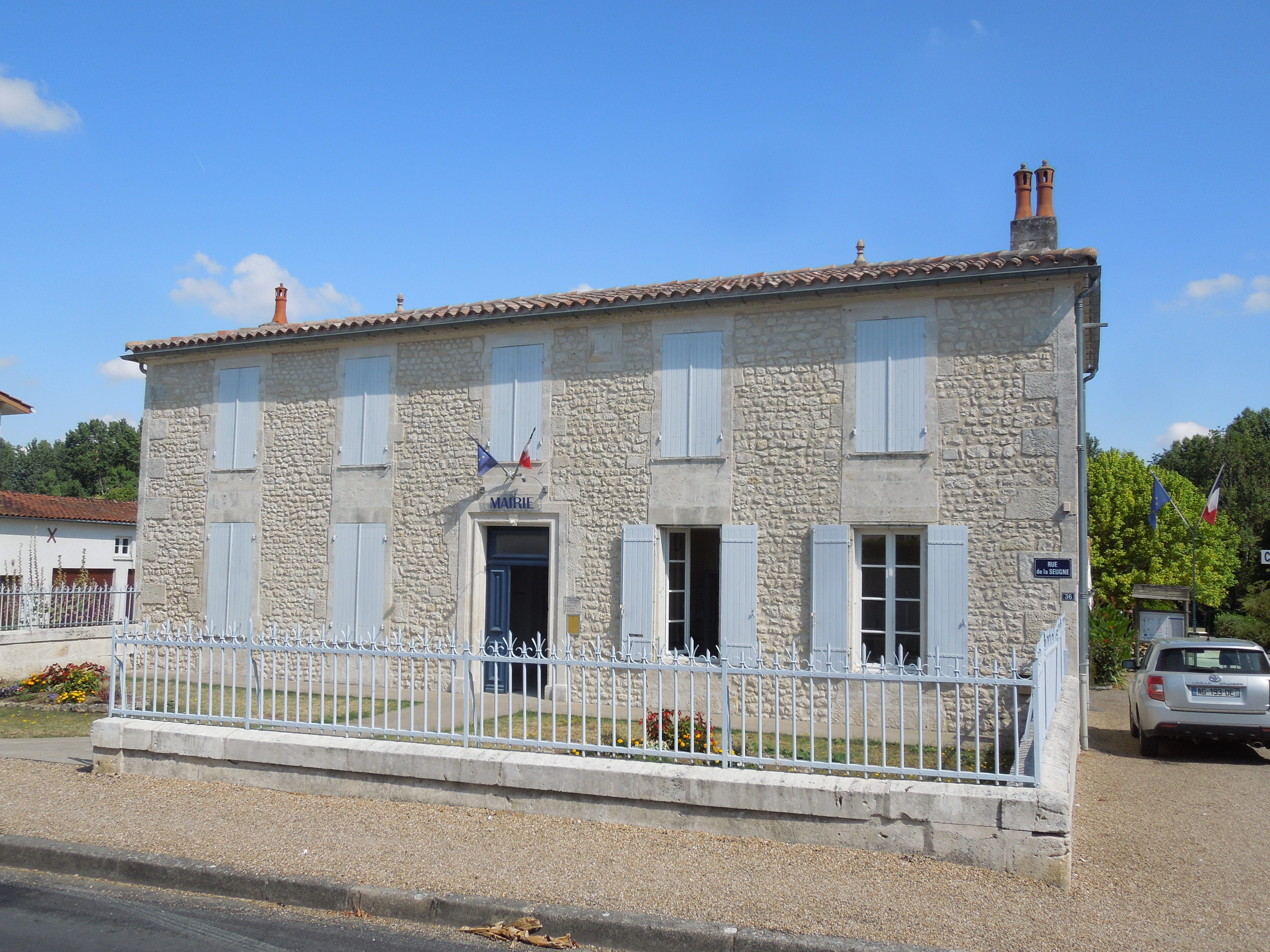 Mosnac (Charente-Maritime), mairie